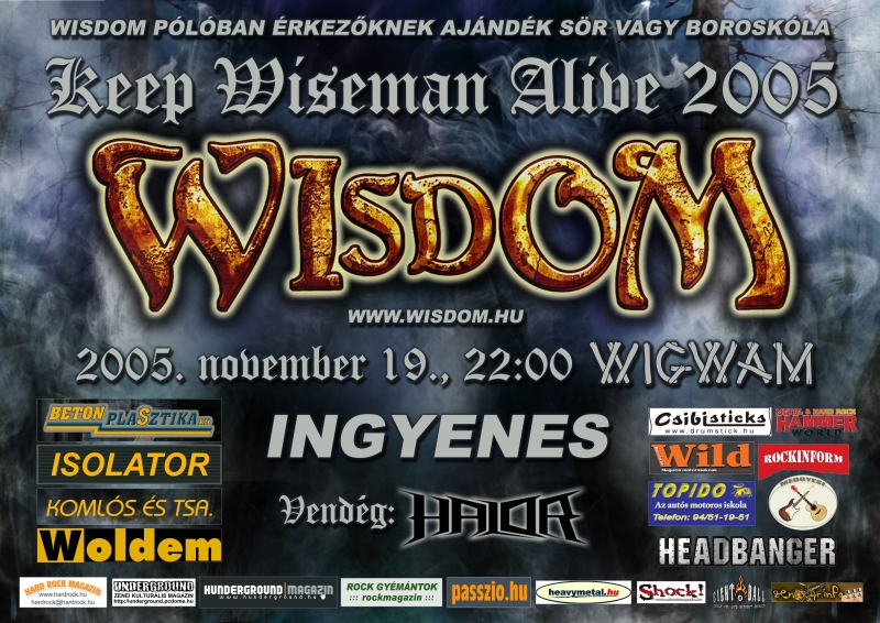 This flyer was made for the Keep Wiseman Alive I show in 2005.